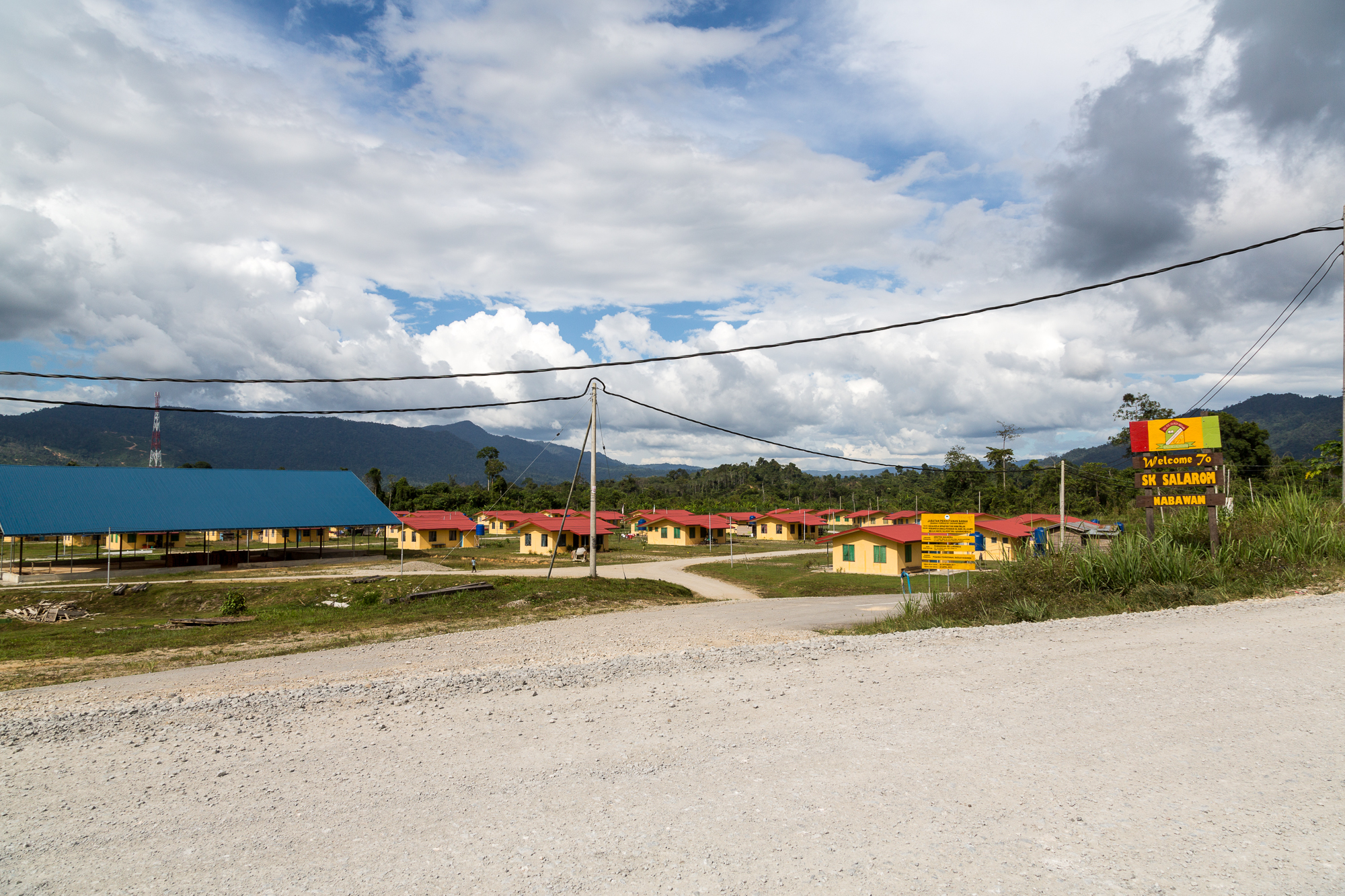 Kg. Salarom, Sapulut, Sabah: New houses in Kg. Salarom